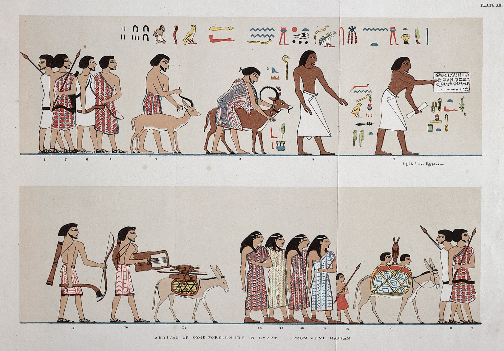 Arrival of some foreigners in Egypt. From Beni Hassan Plate XII. Iconographic Collections Keywords: Egypt